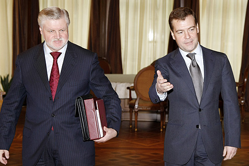 GORKI, MOSCOW REGION. With Chairman of the Federation Council Sergei Mironov.